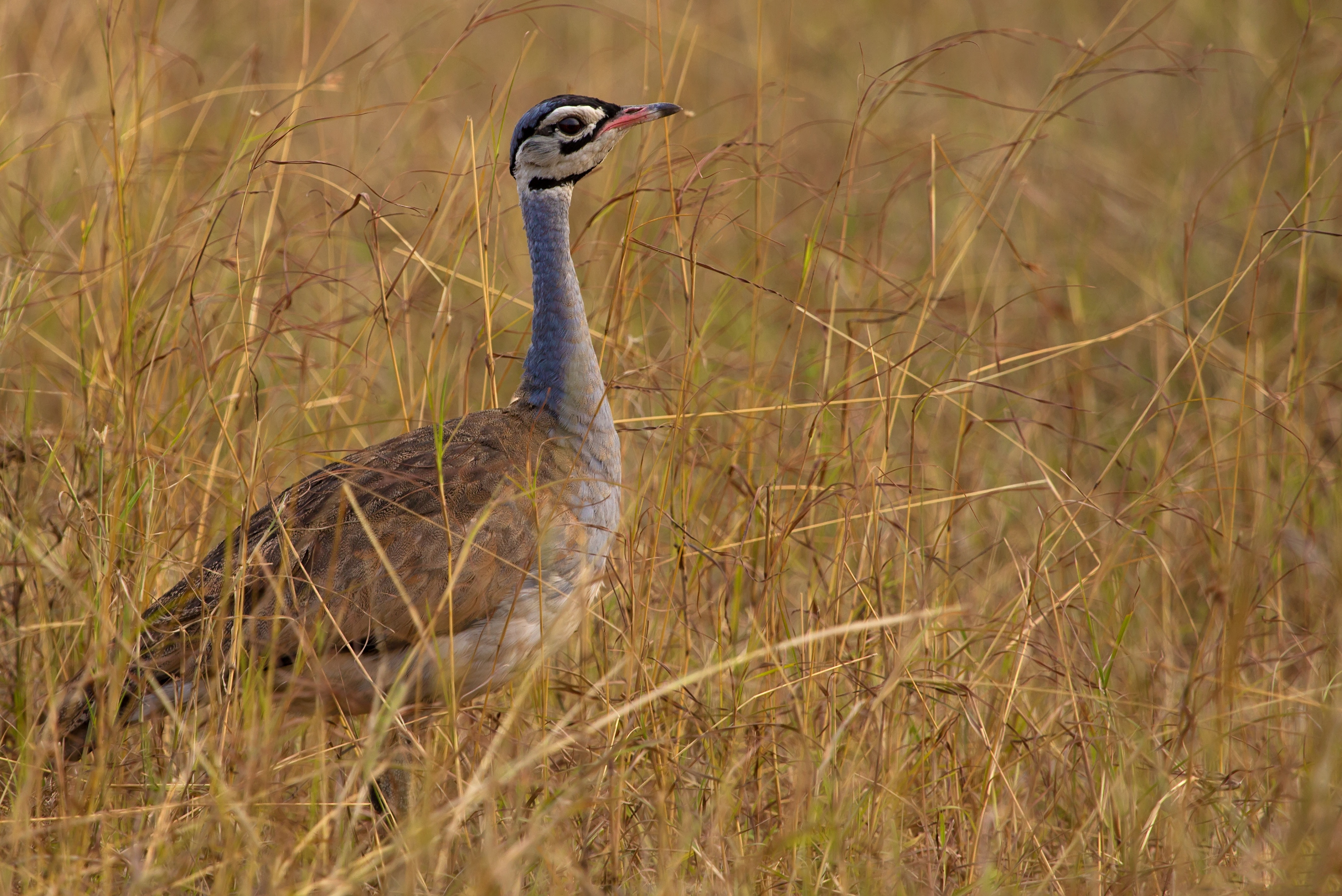 Individual at Maasai Mara, Kenya